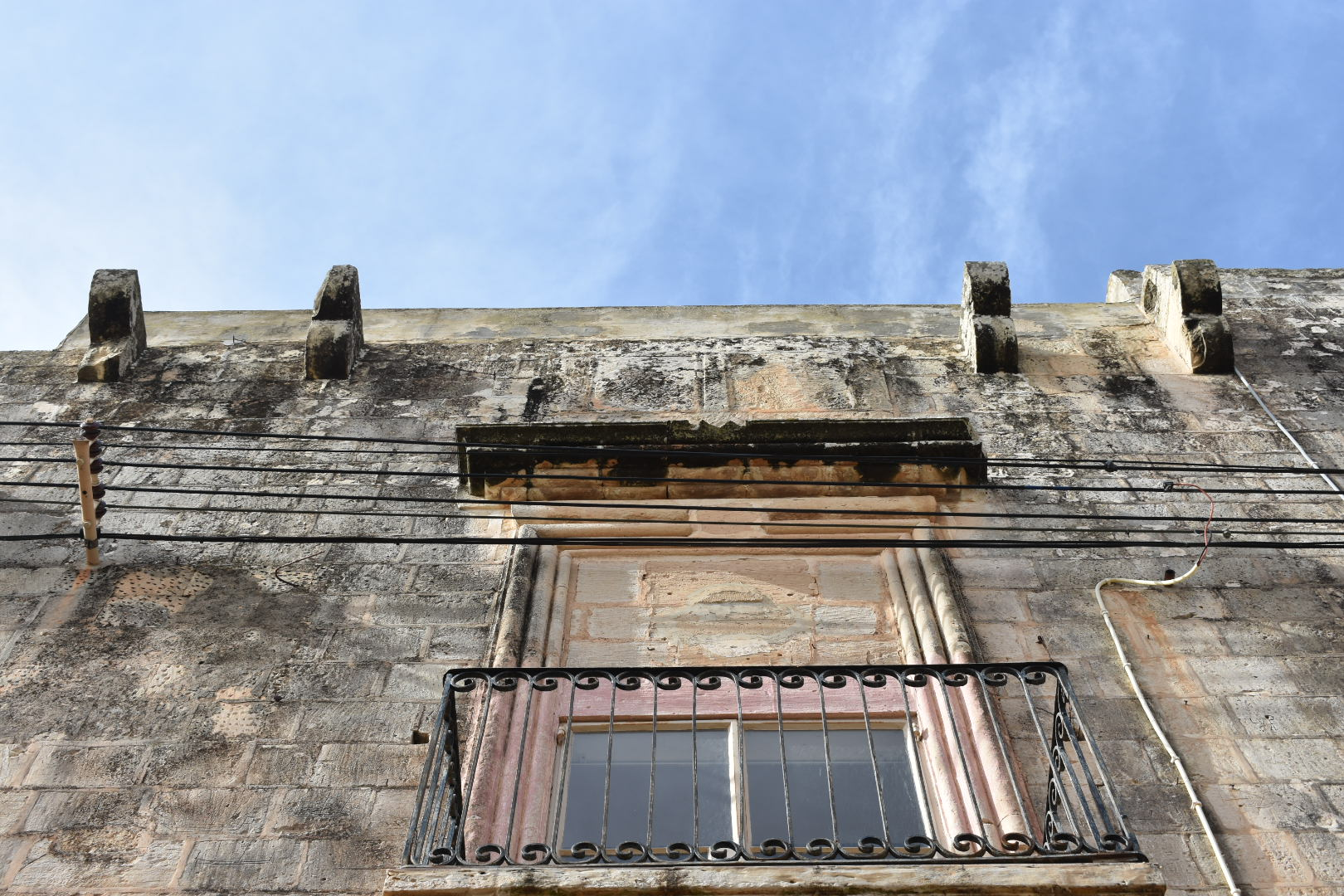 Siggiewi Heritage